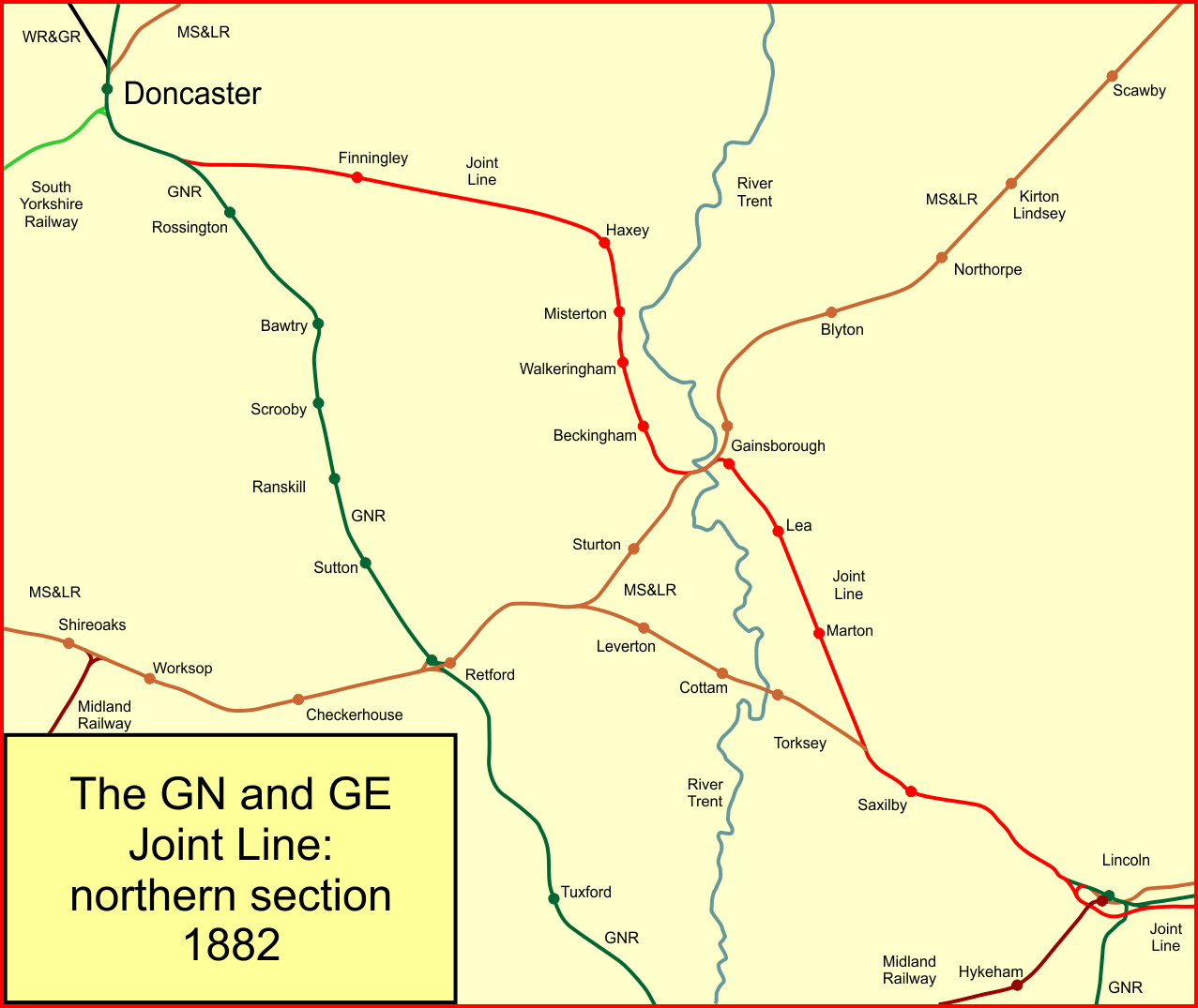 System map of the northern part of the GN and GE Joint Line, England, in 1879